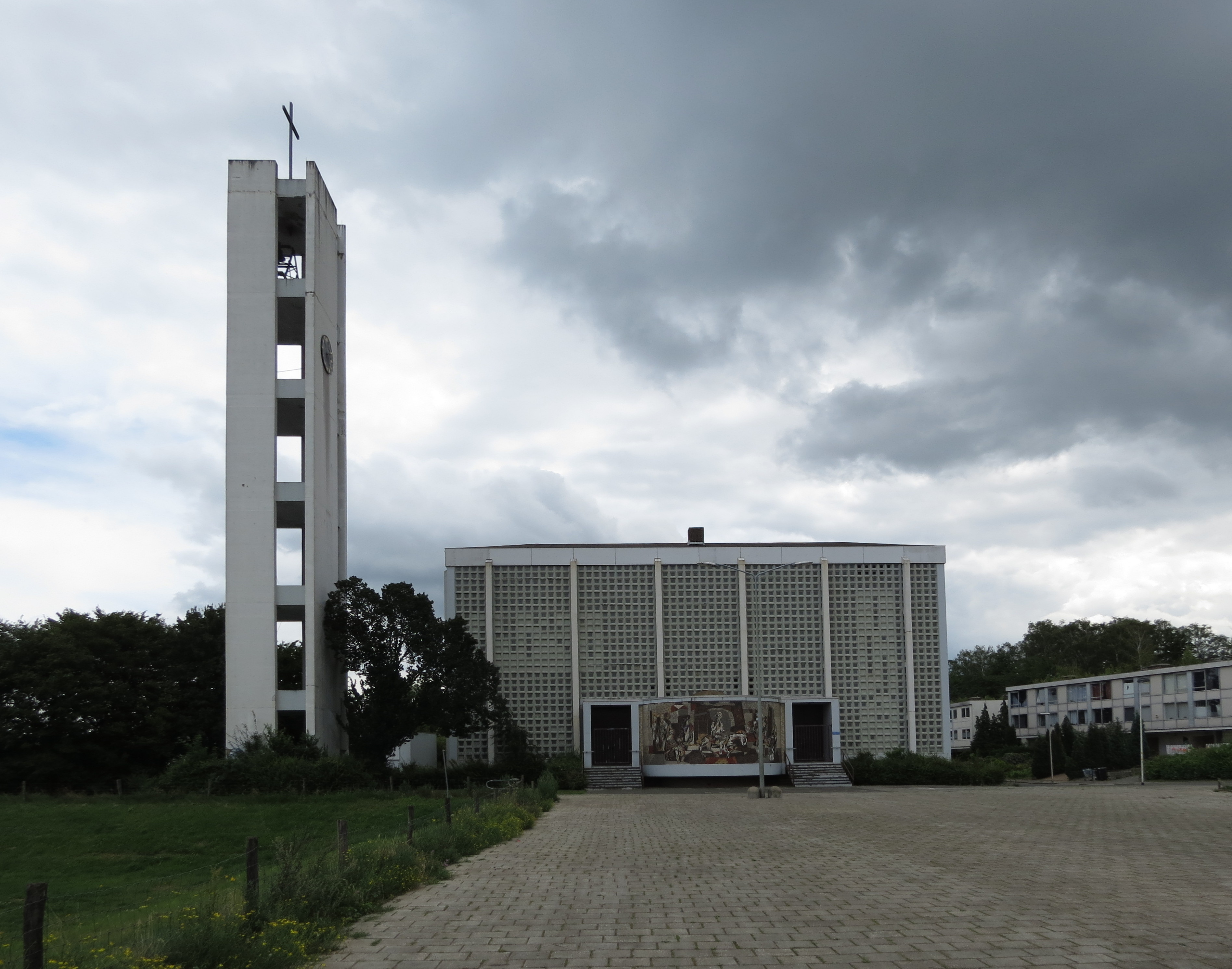 Church Christus Koning at Navolaan, Vrieheide, Heerlen, The Netherlands